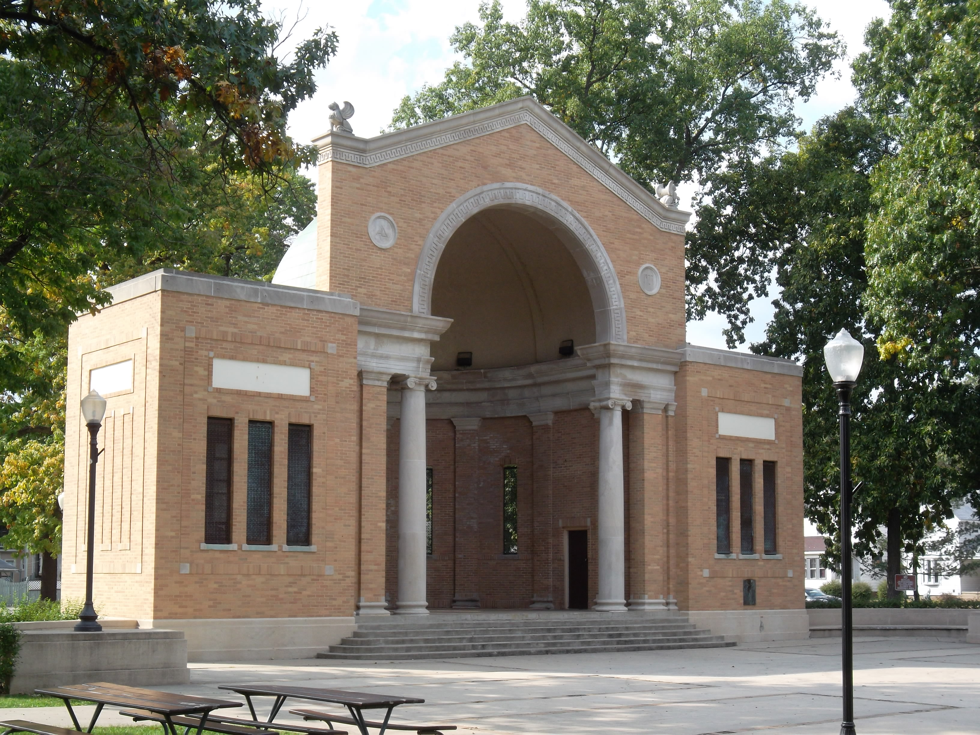 The bandstand at Battell Park, constructed in 1927.